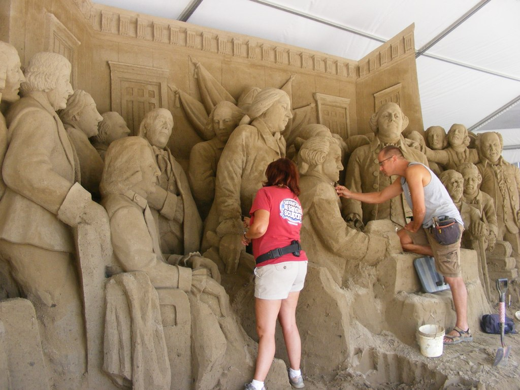 The sculpture is 35 feet long and uses 160 tons of sand